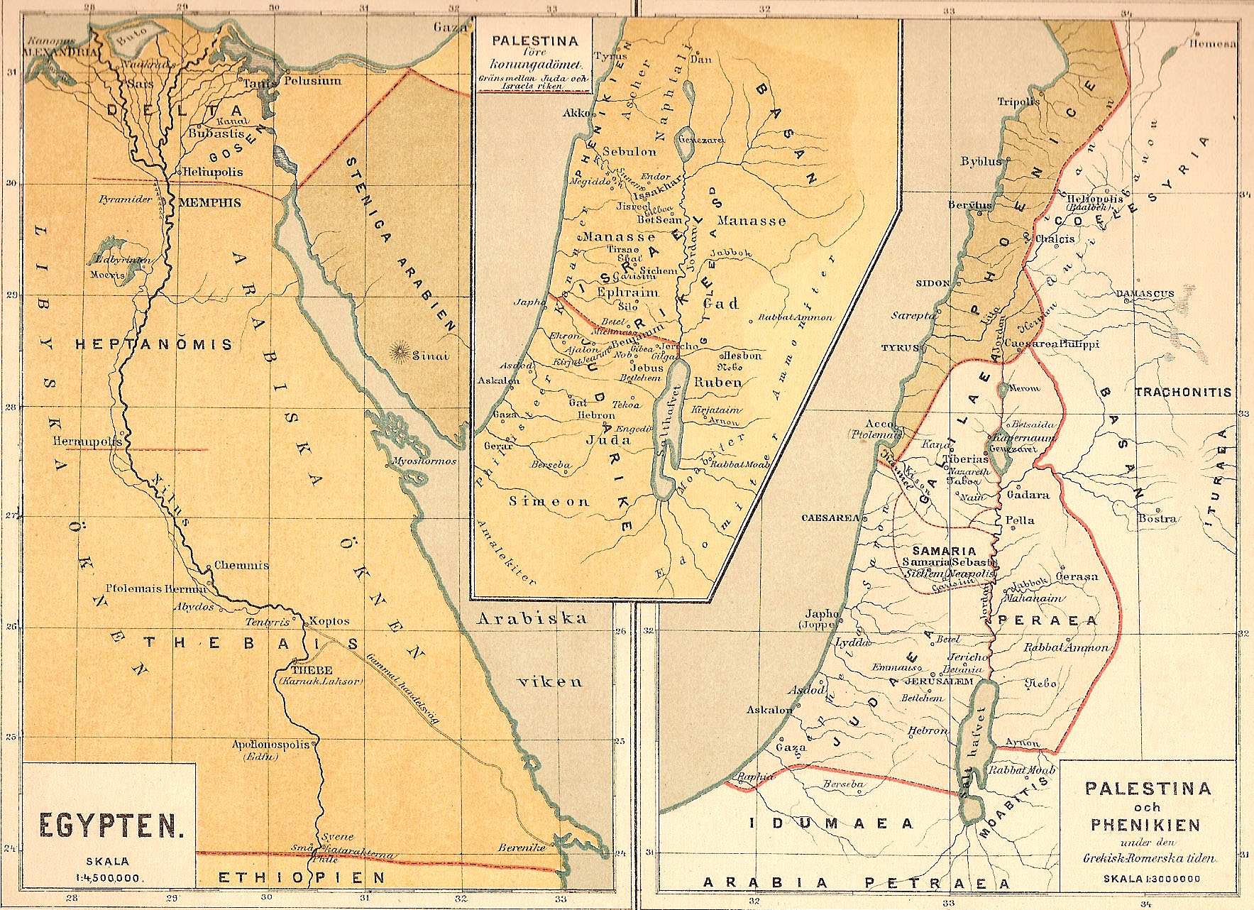 Historic map over old Egypt, Palestine and Fenicia (in swedish)